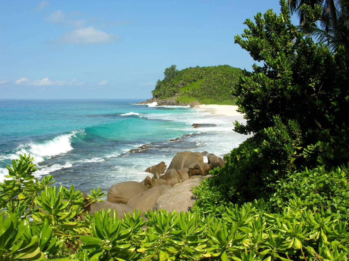 Seychelles, Petit Police, Mahé Island